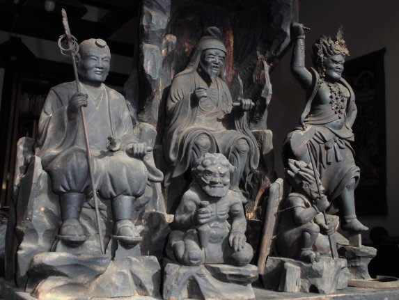 (from the left) Japanese figurines of Shōbō, En no Gyōja, Zao Gongen and in front two demons (Zenki, Goki) who served En no Gyōja. Originally these figurines were stored in a small portable trunk (oi, enkyu) carried by Yamabushi ascets during their exercises in the mountains. (private collection)